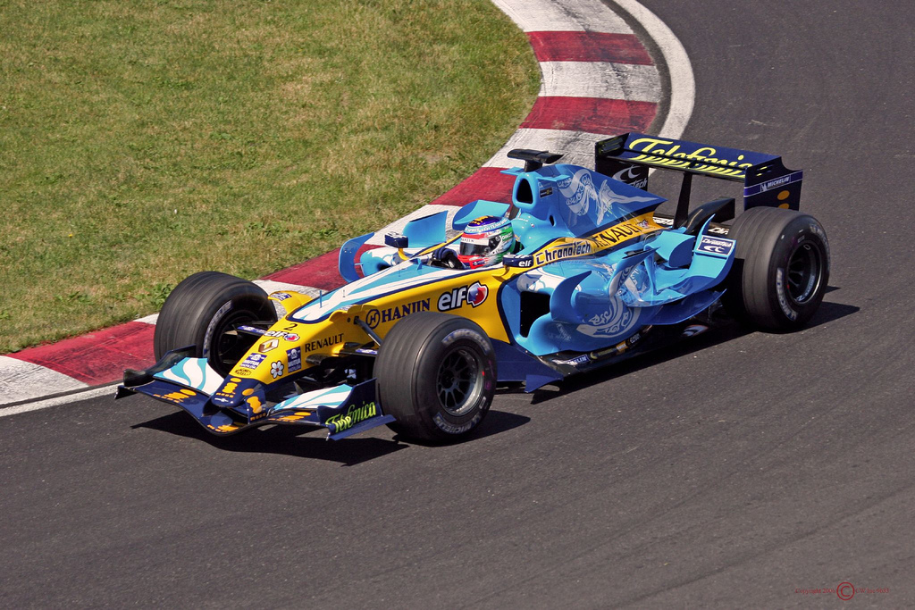 Giancarlo Fisichella driving for Renault at the 2006 Canadian Grand Prix.